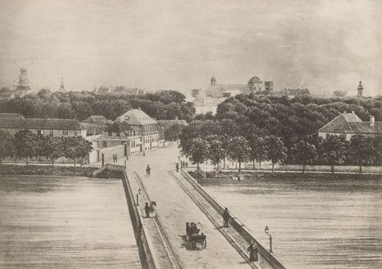 The Peblinge Bridge (now Dronning Louises Bro) at Jærlighedsstien where Søtorvet is today in Copenhagen, Denmark